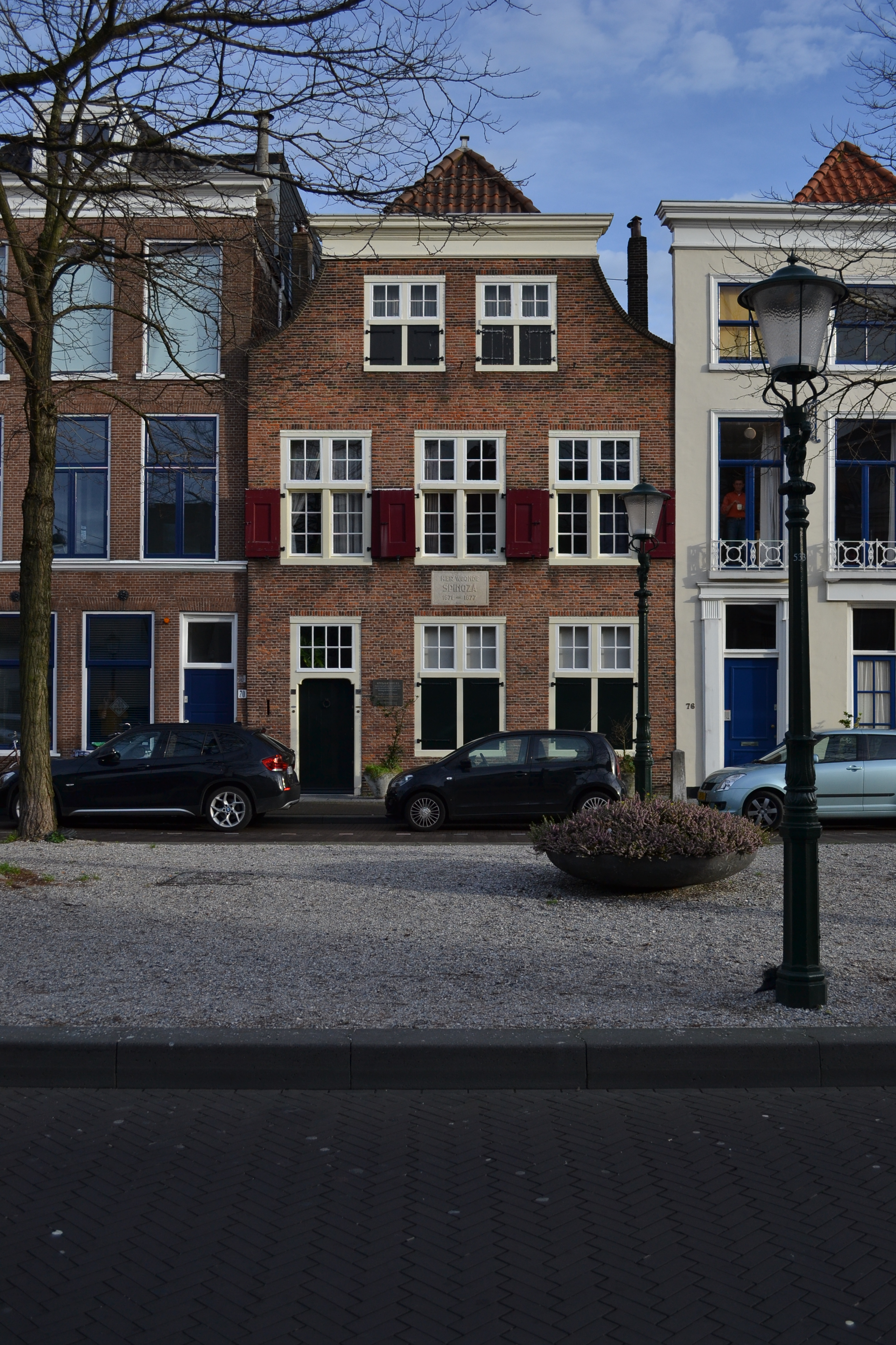 A view of the Spinozahuis in The Hague, where Baruch Spinoza died in 1677.